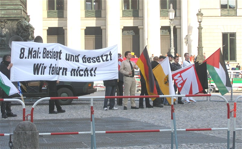 Flags include Palestinian flag (at far right) and Iranian flag (at far left, recognizable by its Allahu Akbar fimbriations). Boarisch: A rechtsextreme Demonstration.